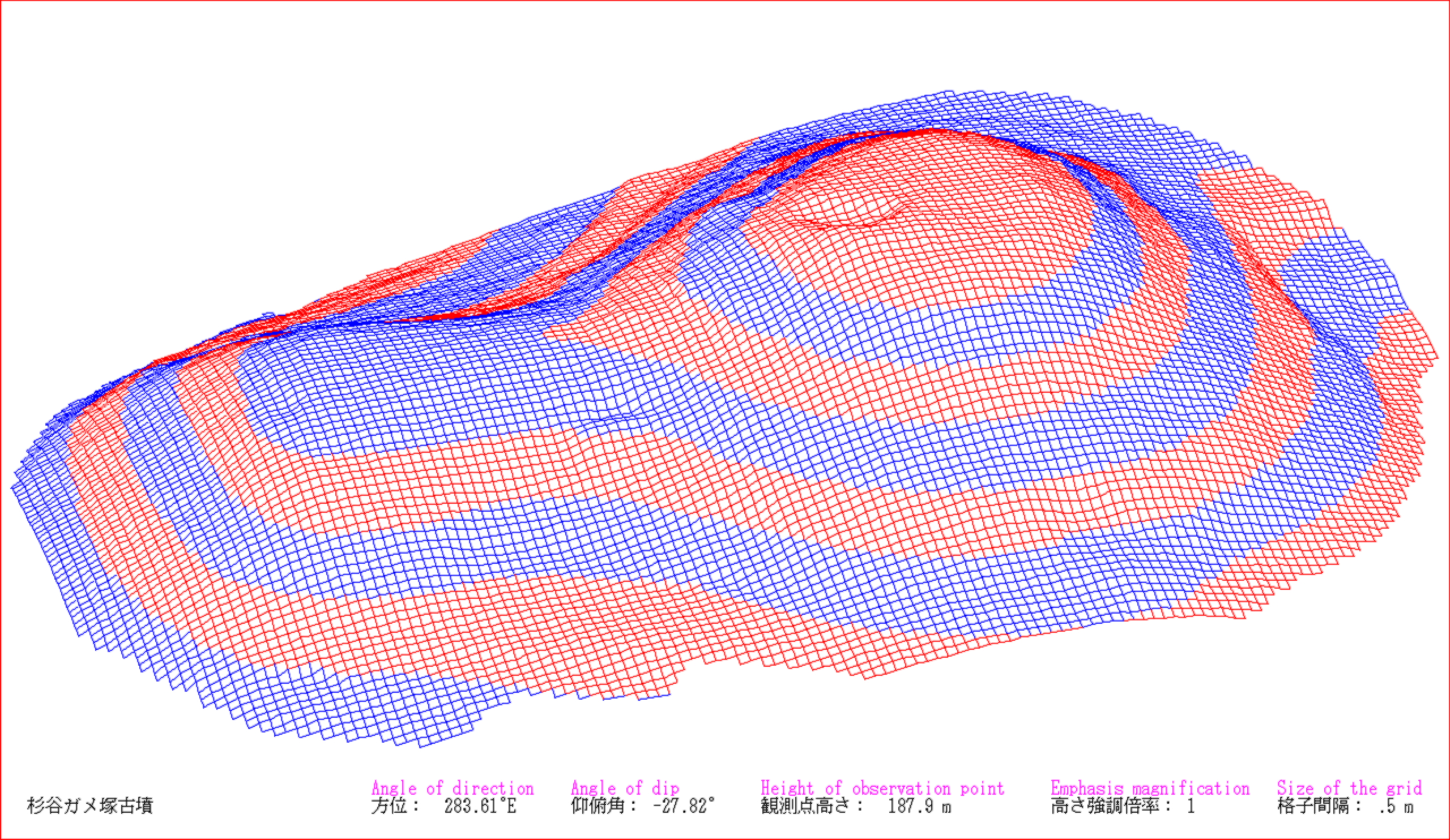 I who am a contributor drew the picture by a software which developed by myself. The survey map which I referred to depends on "古墳文化を学ぶ会「加賀・能登の古墳測量調査」『石川考古学研究会々誌』第35号 石川考古学研究会（1992年）". This is a drawing of present situation (not a drawing of a restored mound). The drawing depends on combination of wire frame and height eight phases classification. Perspective projection.